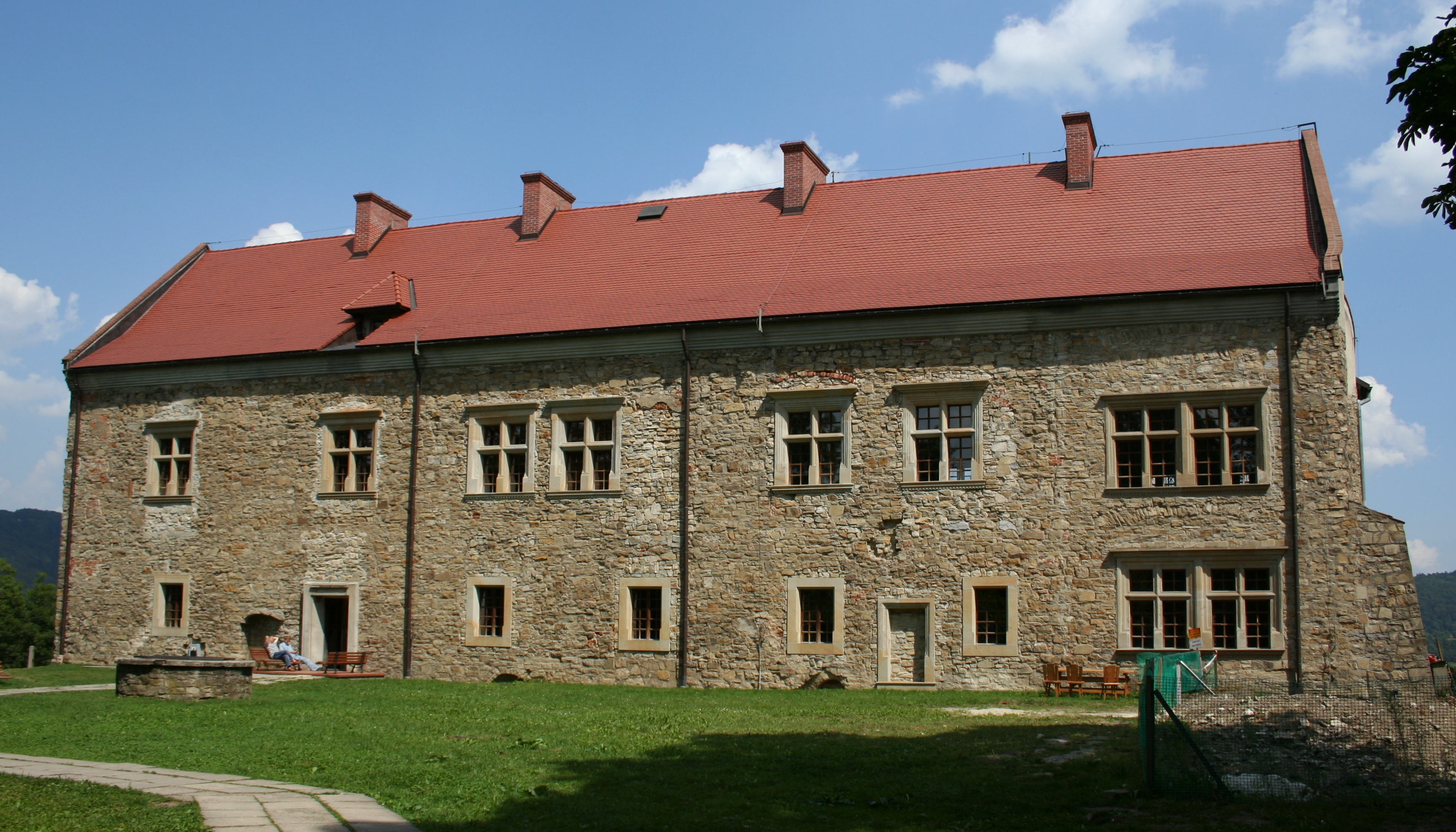 The Castle in Sanok, Poland